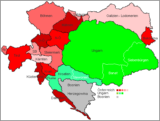 Austria (red nuances)-Hungary (green nuances) & Bosnia (grey) 1908-1918